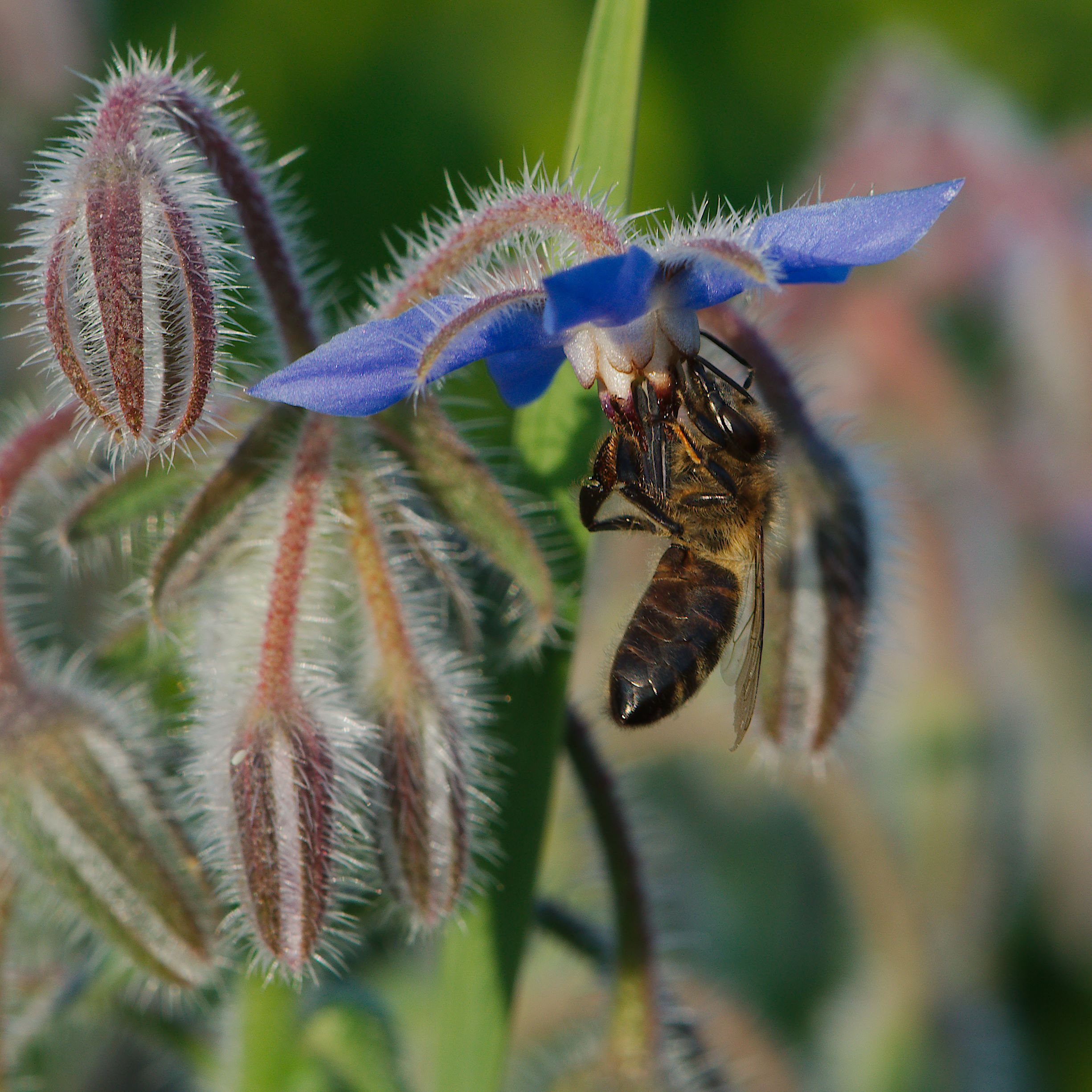 creepy crawlies 2012 Ingelfingen